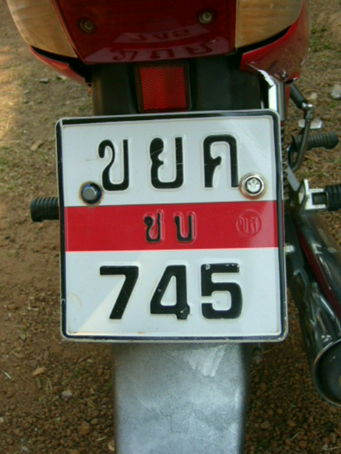 Motorcycle license plate of Thailand.